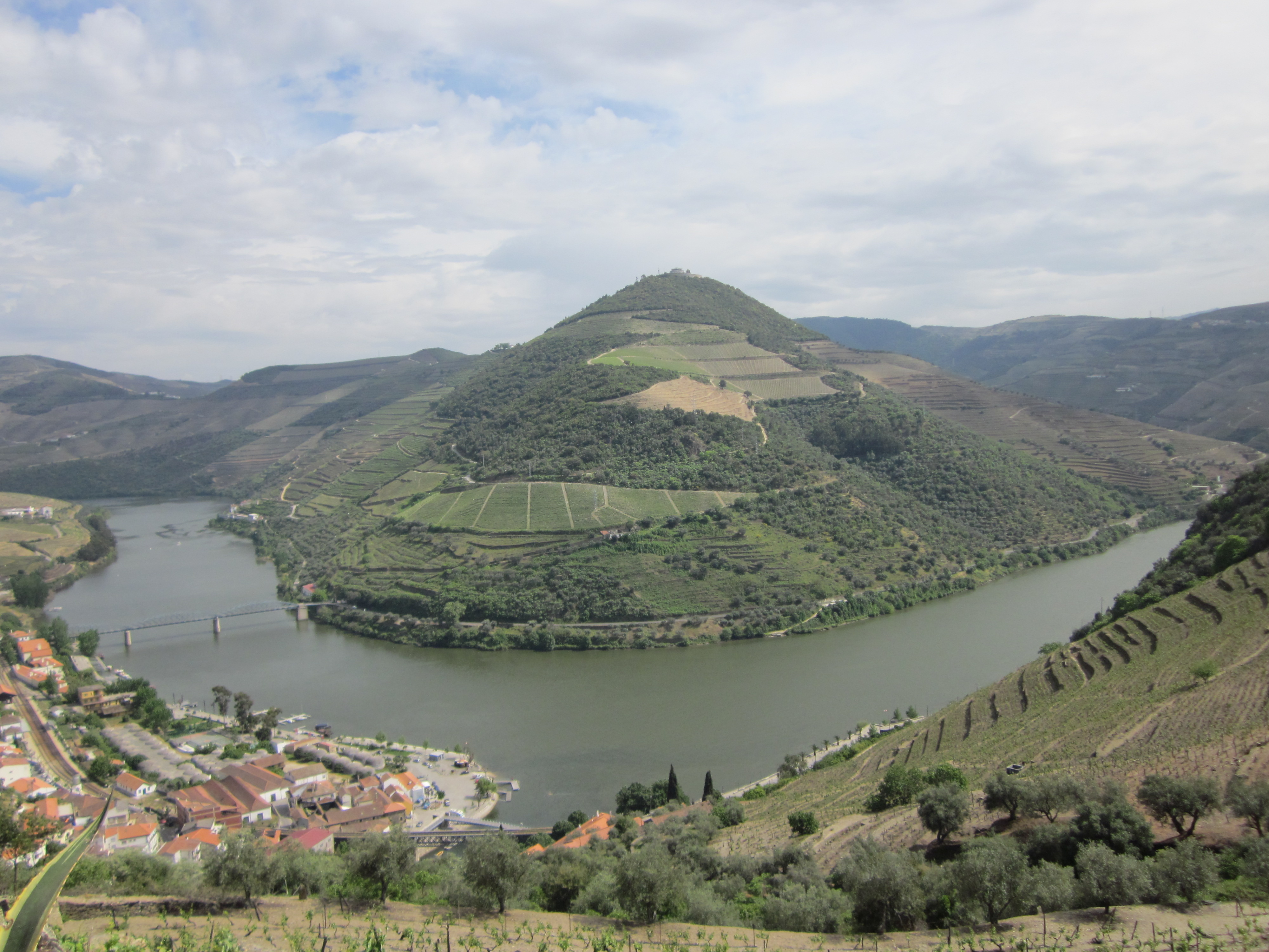 The hill on the riverside opposite the village Pinhão, Alijó, Portugal.